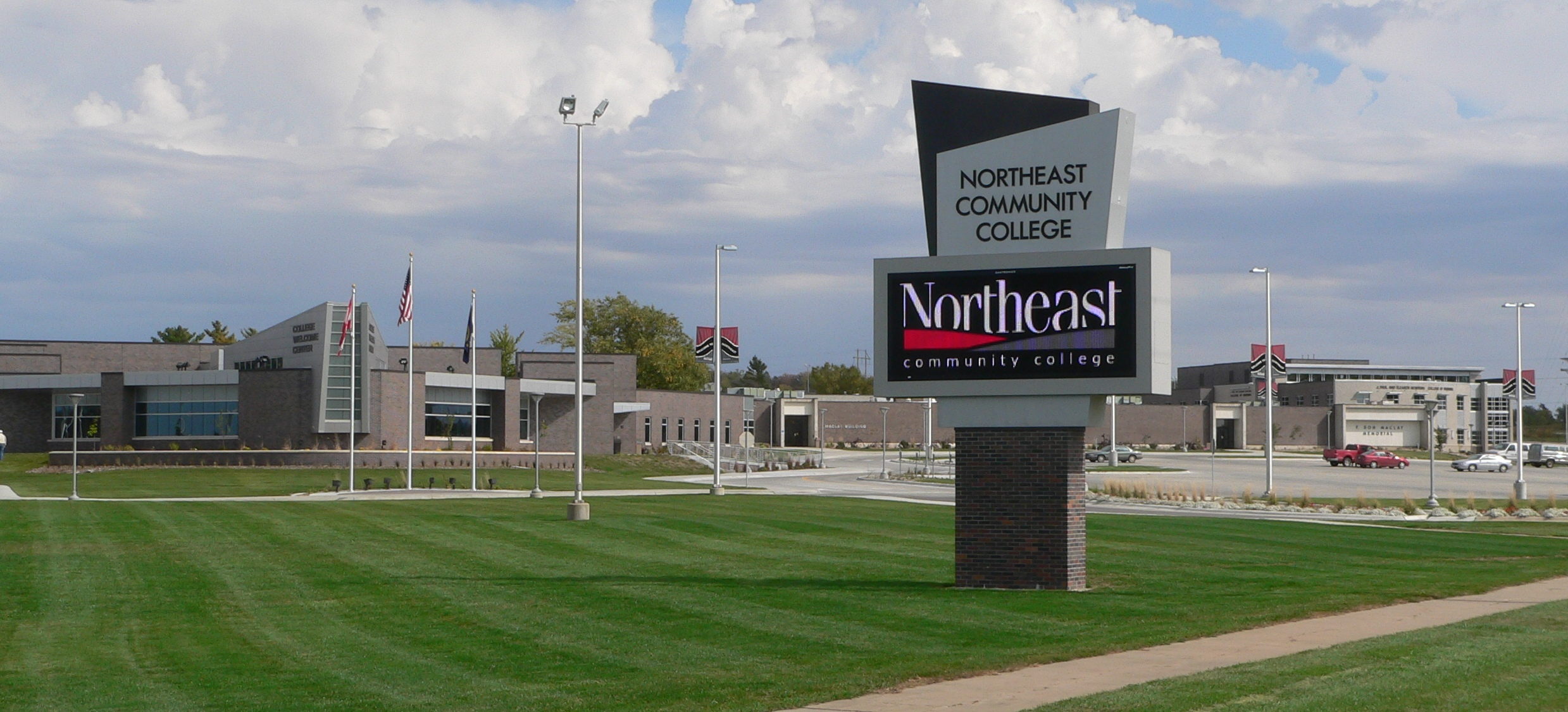 Main campus of Northeast Community College in Norfolk, Nebraska.